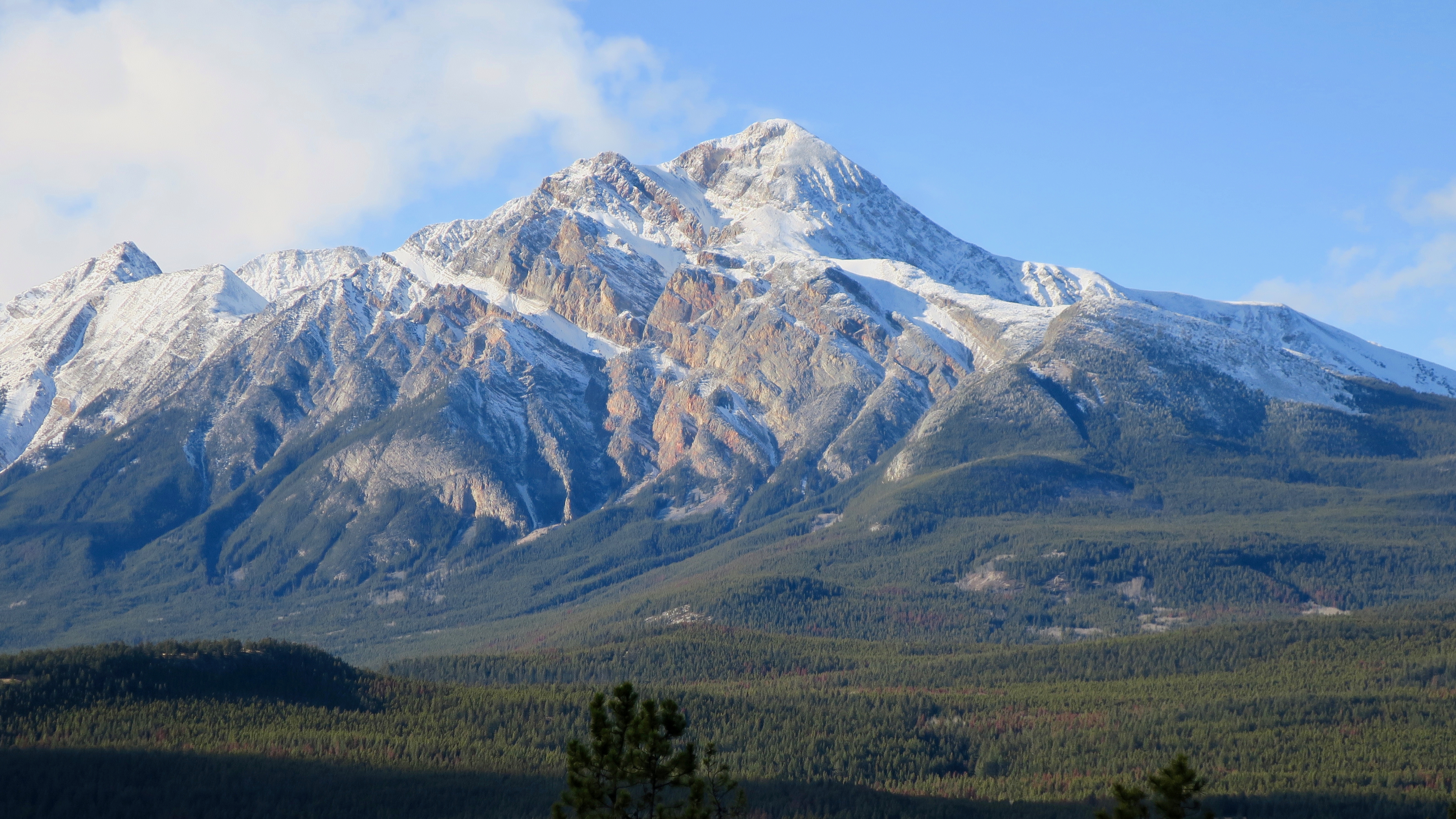 View from Maligne Lookout